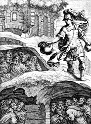 Woodcut of 1 Kings 18:13